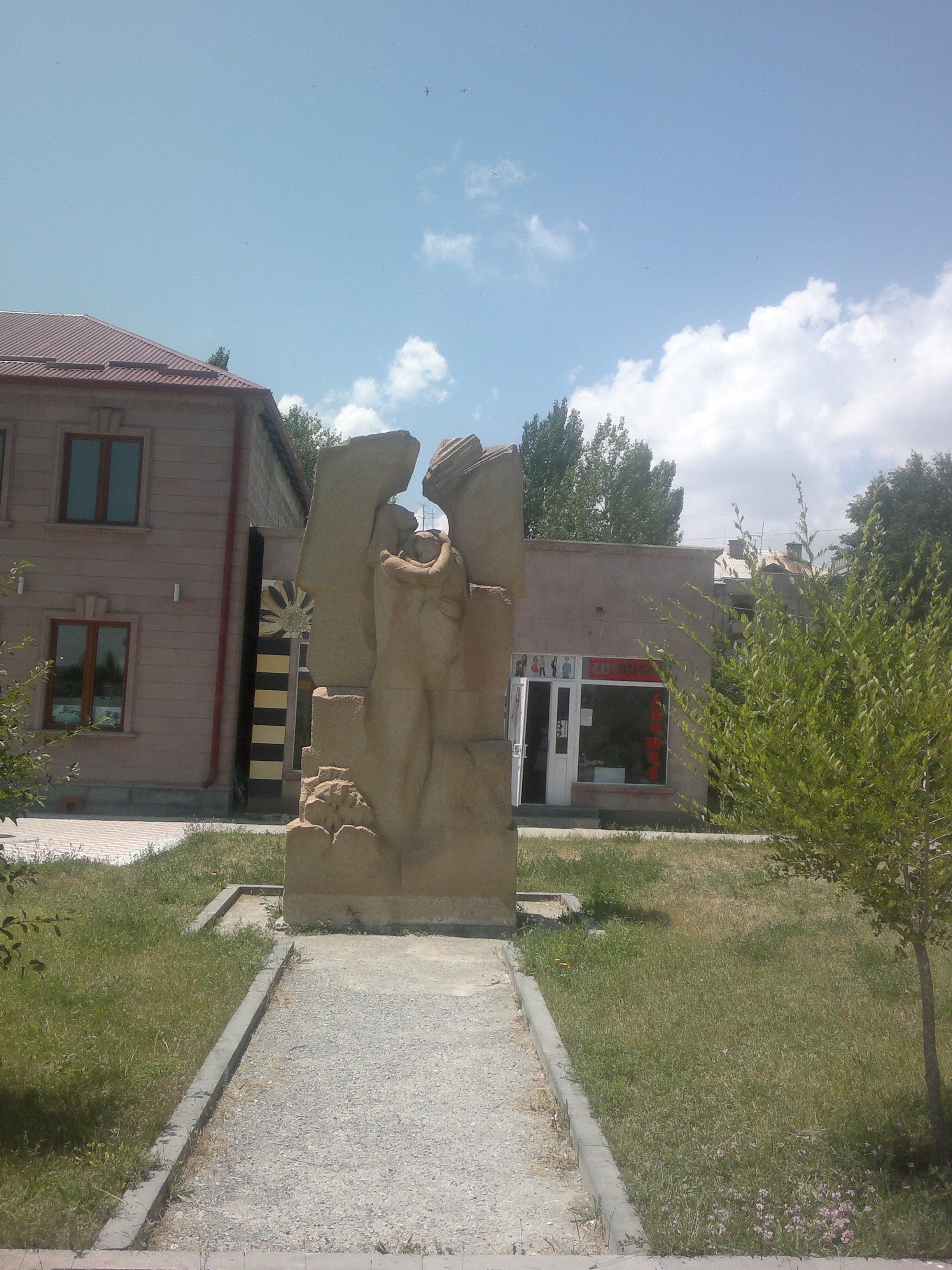 Sant Hakob Mcbna church in Gyumri